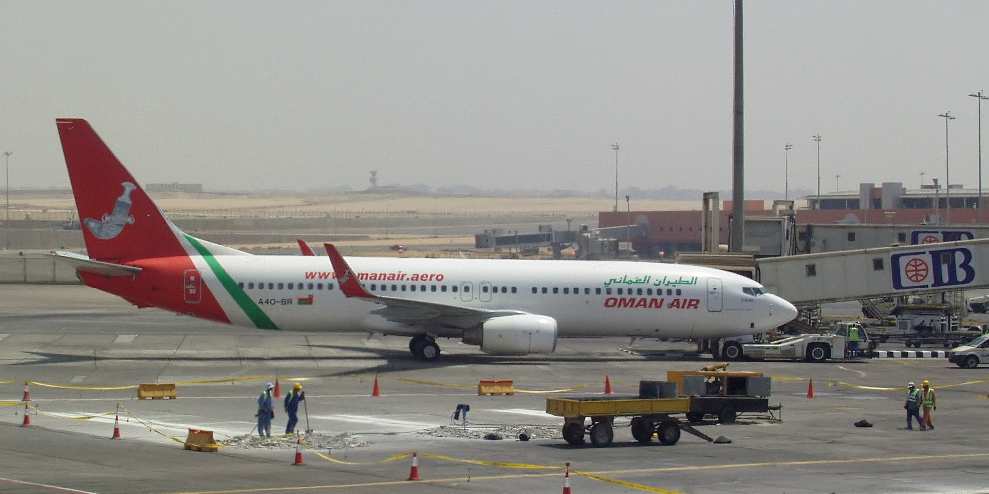 Oman Air, Boeing B737-800 (A4O-BR) at Cairo International Airport, Egypt